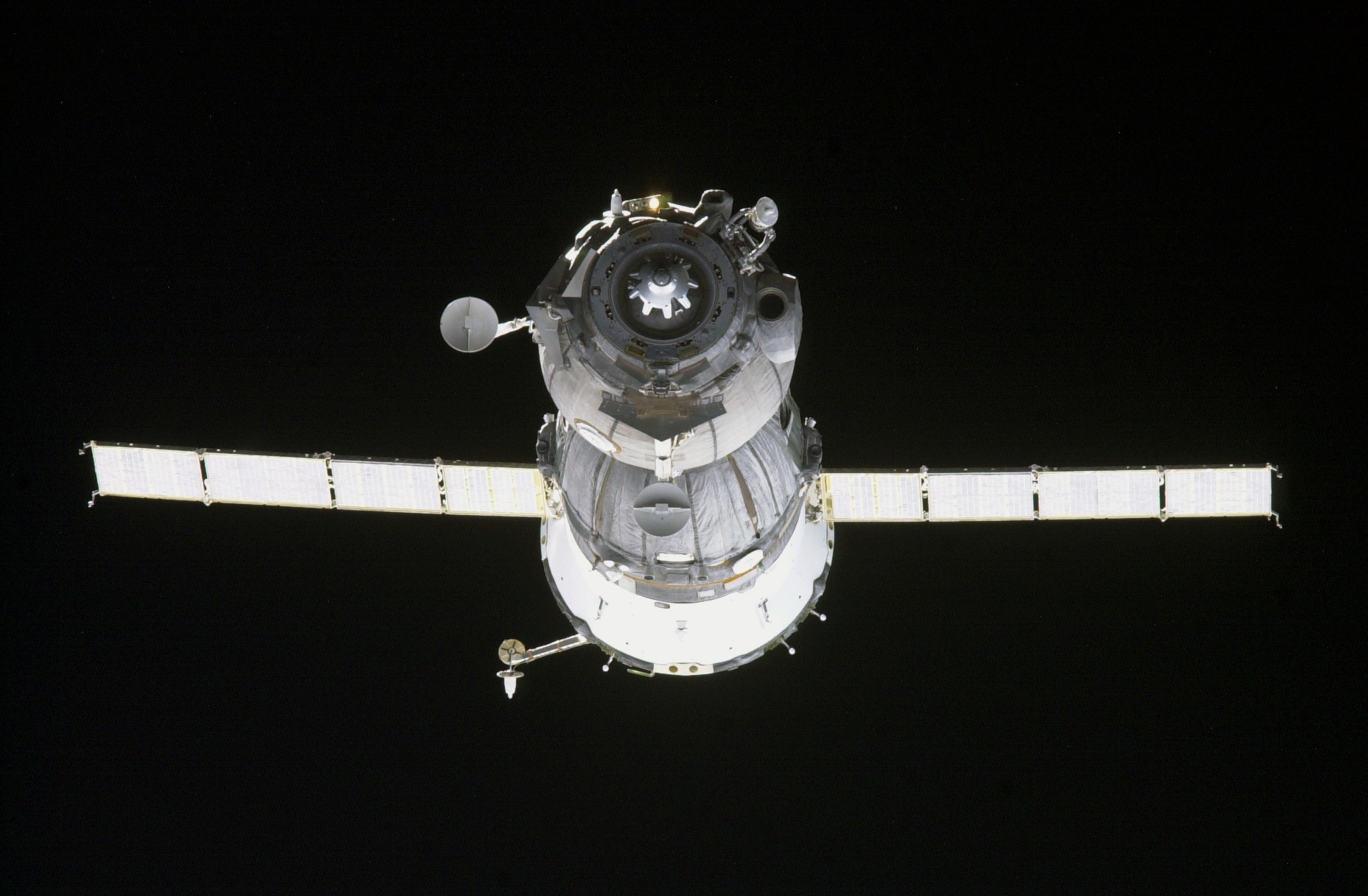 Backdropped by the blackness of space, the Soyuz TMA-4 spacecraft approaches the International Space Station (ISS). Onboard the spacecraft are cosmonaut Gennady I. Padalka, Expedition 9 commander representing Russia’s Federal Space Agency; astronaut Edward M. (Mike) Fincke, NASA ISS science officer and flight engineer; and European Space Agency (ESA) astronaut Andre Kuipers of the Netherlands. The Soyuz linked to the nadir docking port of the Zarya Control Module at 12:01 a.m. (CDT) on April 21, 2004 as the two spacecraft flew 230 miles above central Asia. The docking followed Monday’s launch from the Baikonur Cosmodrome in Kazakhstan.